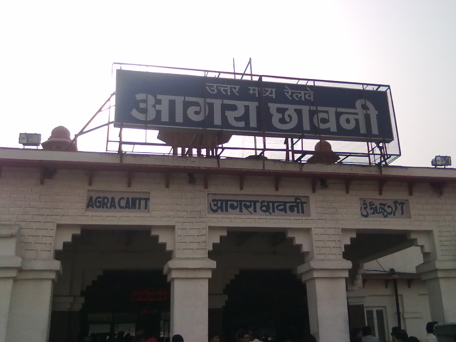 AGRA-agra railway station BY Fateh.RawKEy